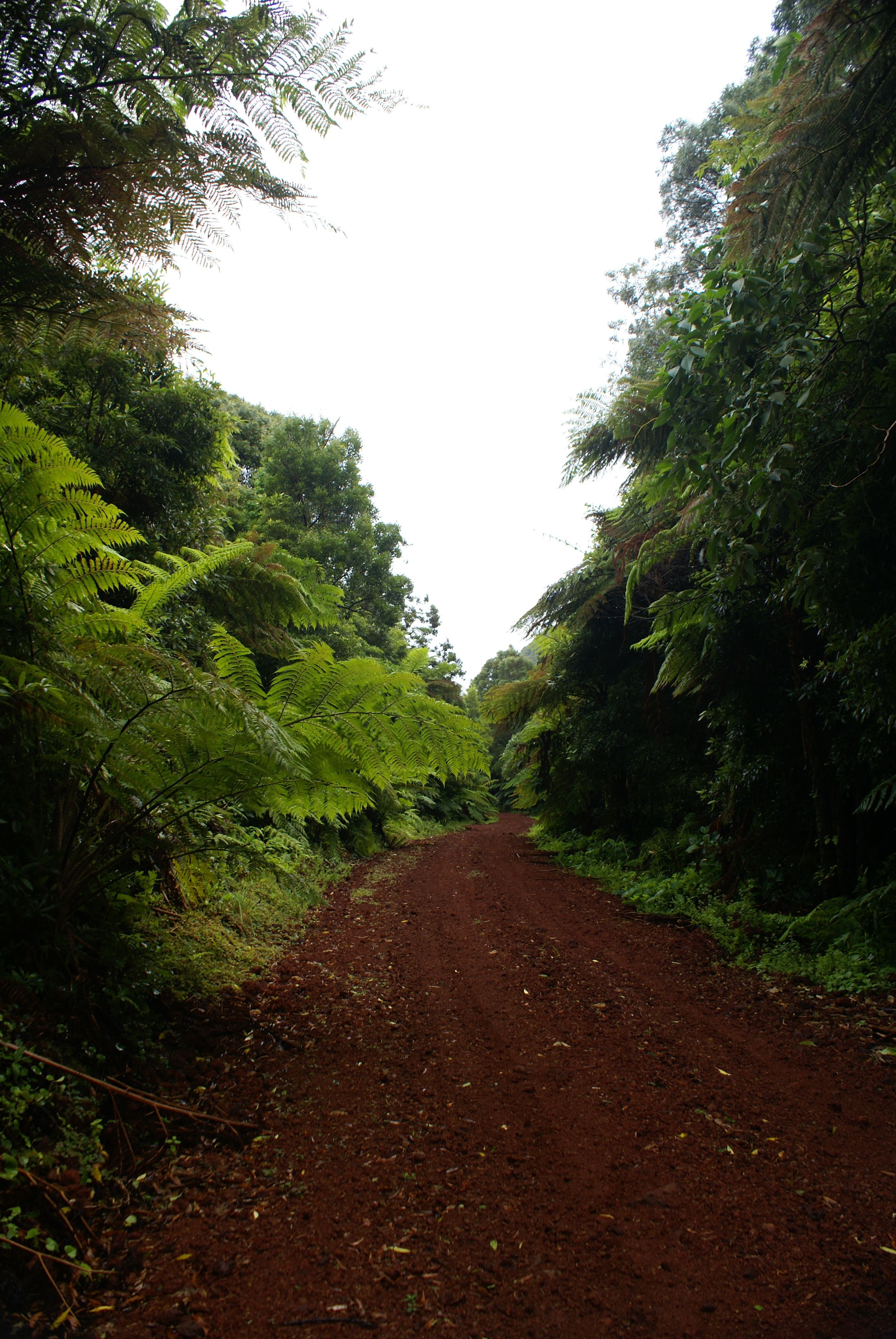 Poça das Asas, floresta local, concelho da Horta, ilha do Faial, Açores, Portugal